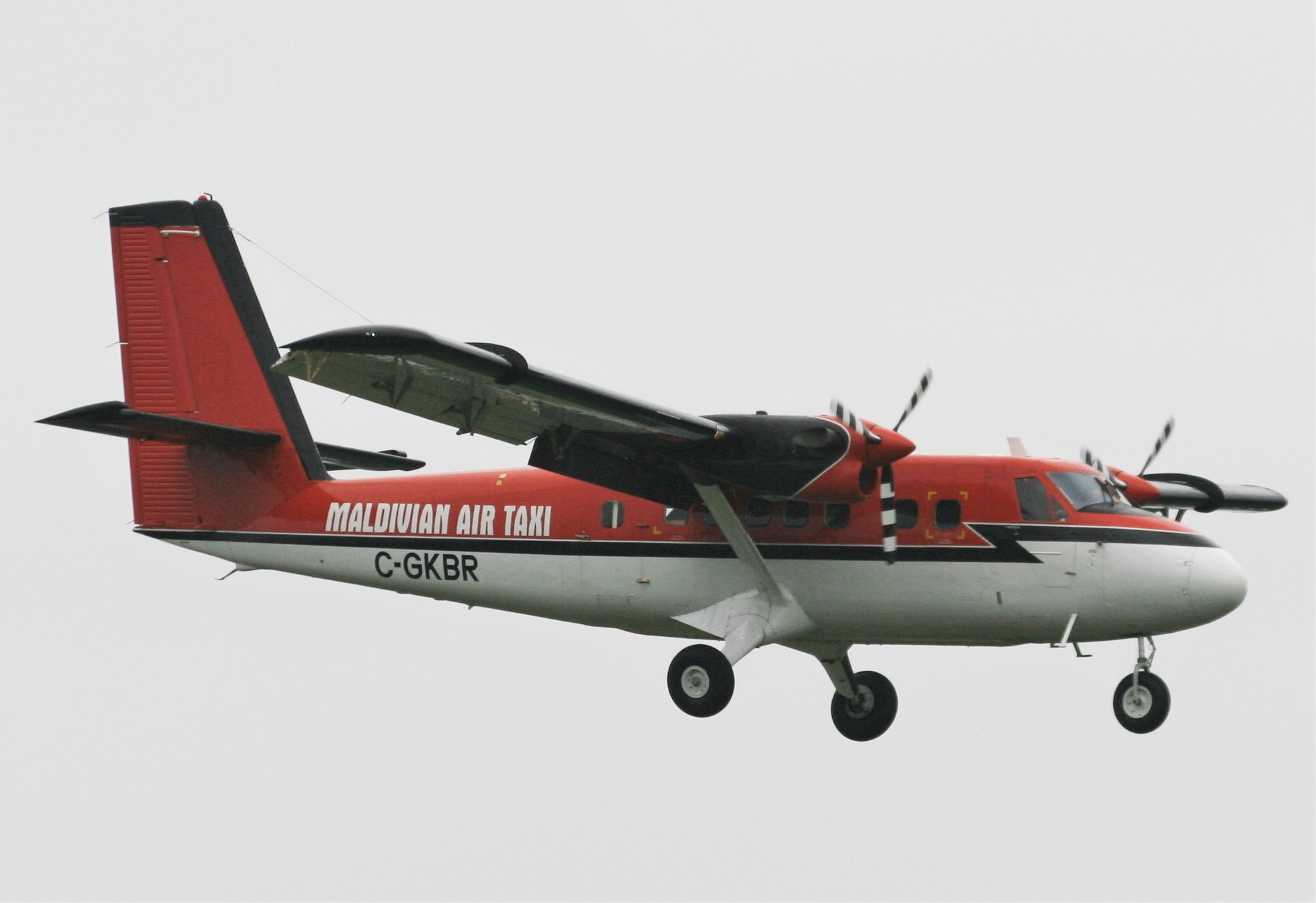 C-GKBR DHC-6-300 Twin Otter Maldivian Air Taxi Coventry 29-04-2007